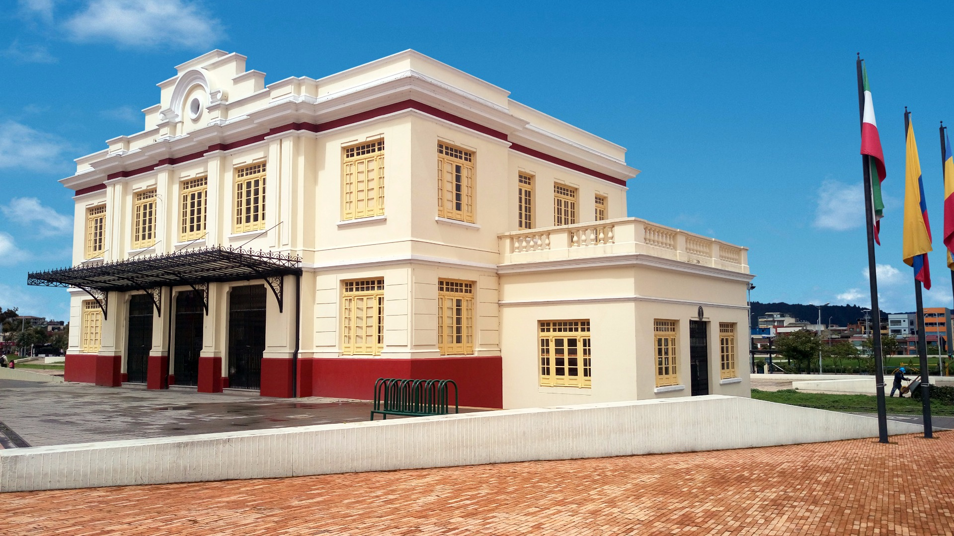 imcrdz